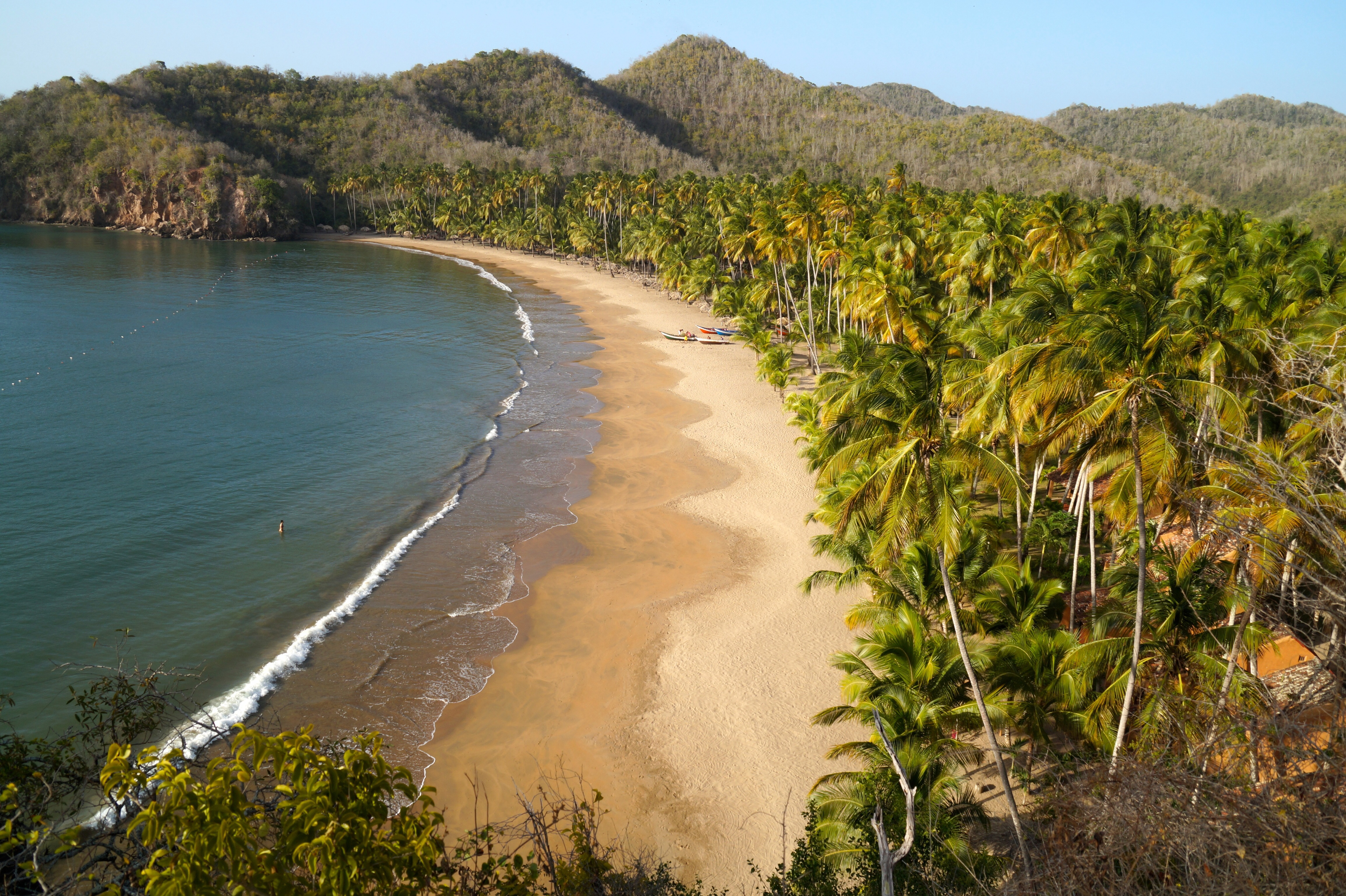 One of the most beautiful beaches on earth